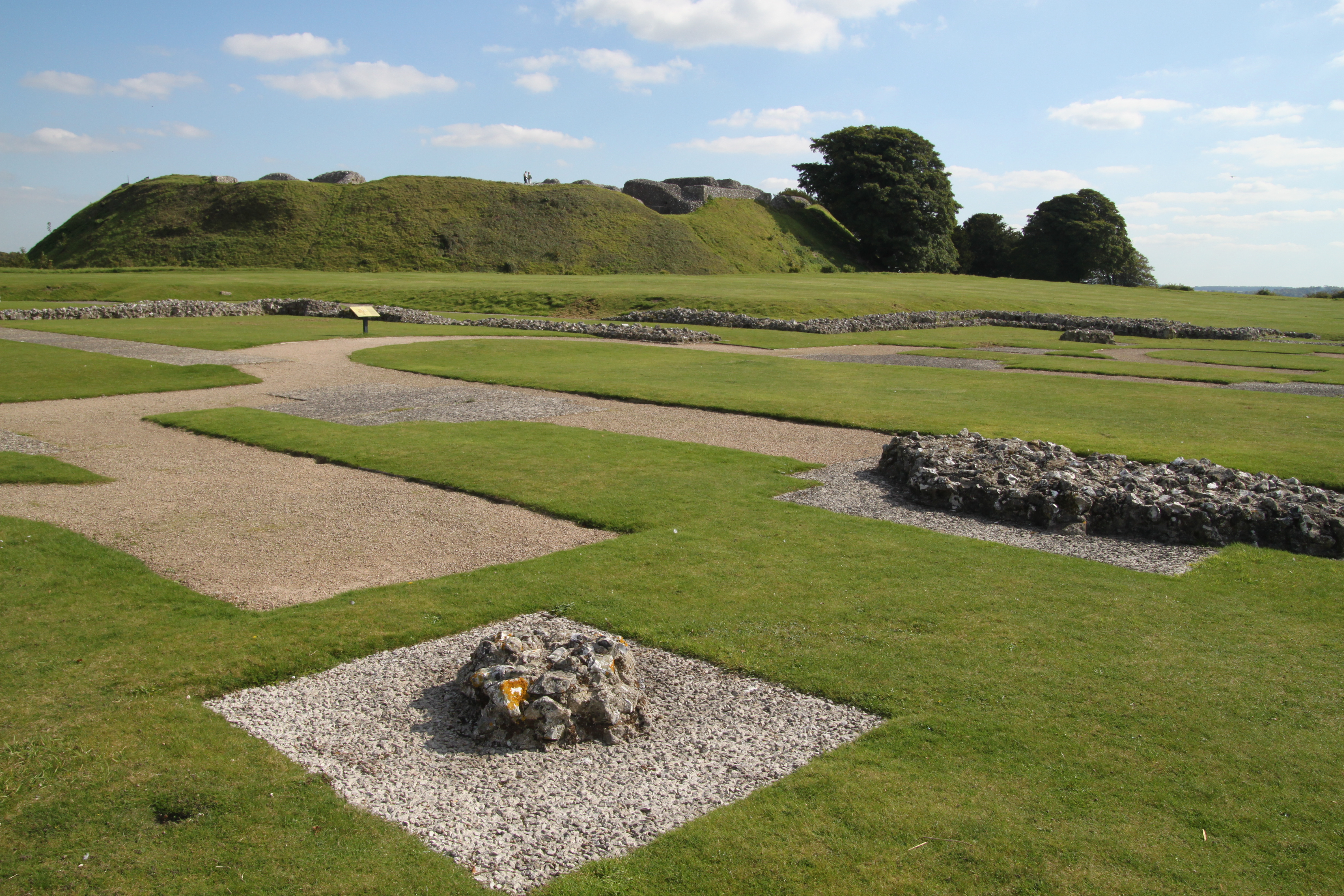 View of the norman castle motte from the cathedral